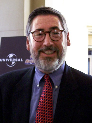 John Landis at the Blues Brothers 25th Anniversary DVD Launch in Hollywood, August 2005. Photograph taken by myself.